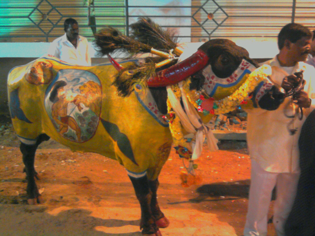 This is a picture of buffalo carnival celebrated in Hyderabad during Diwali.